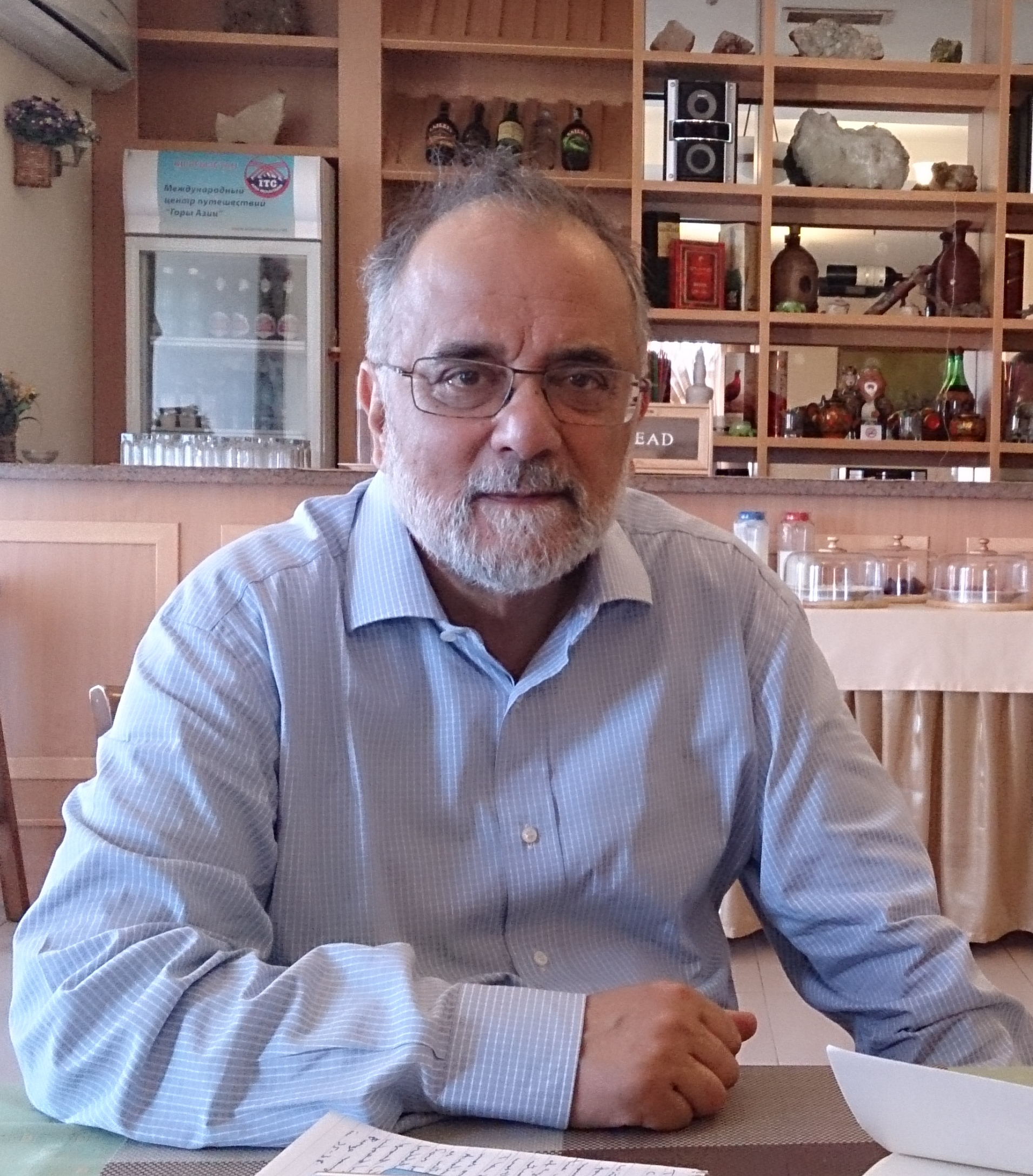 Ahmed Rashid, a Pakistani writer and journalist, during his visit to Kyrgyzstan. Bishkek, Kyrgyzstan. A photo by T. Chorotegin. 31.03.2014.